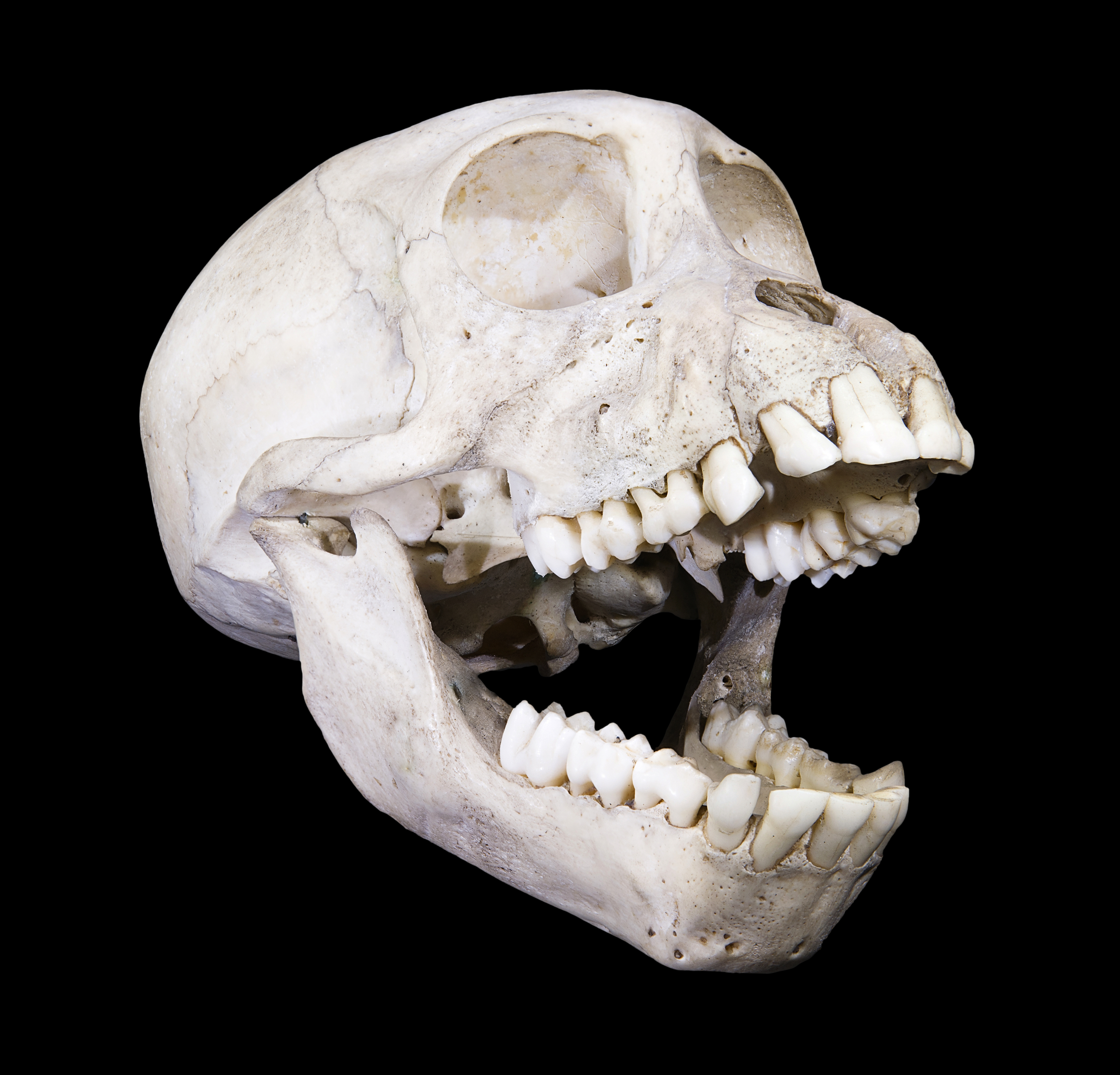 Yellow Baboon Papio hamadryas cynocephalus (Papio hamadryas Linnaeus 1758) Young subject (To 3 / 4 open mouth) Size : 12.2 x 8.8 x 9.2 cm